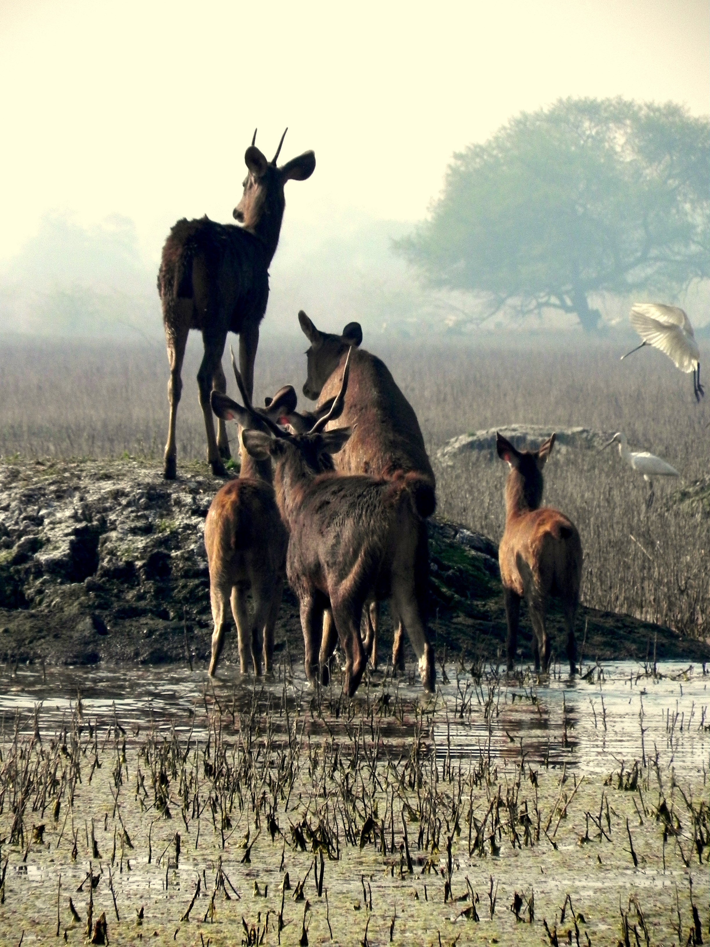 This photograph was taken during my recent visit to Keoladeo National Park in Bharatpur, Rajasthan. The picture depicts family of Sambhar which are a common sight in Keoladeo National park. This national park is also a World Heritage Site under criteria ix of the UNESCO Conventions. The sanctuary is home to over 350 species of native and migratory birds as well as many species of reptiles and mammals.